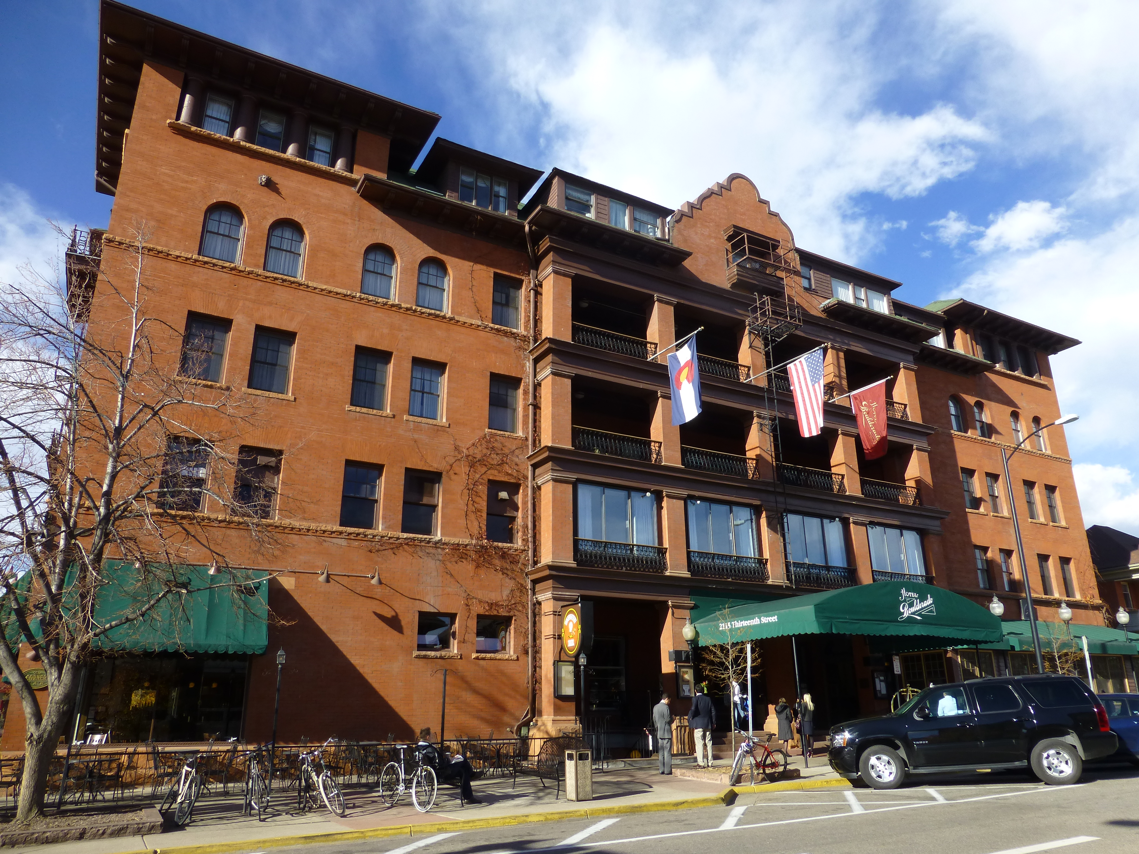 Boulderado Hotel exterior